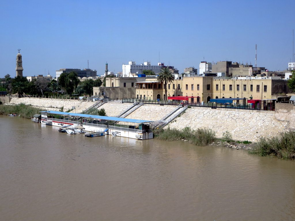 The muddy Tigris River runs through the center of Baghdad, Iraq, on its 1,850-kilometer journey from Turkey to the Persian Gulf.